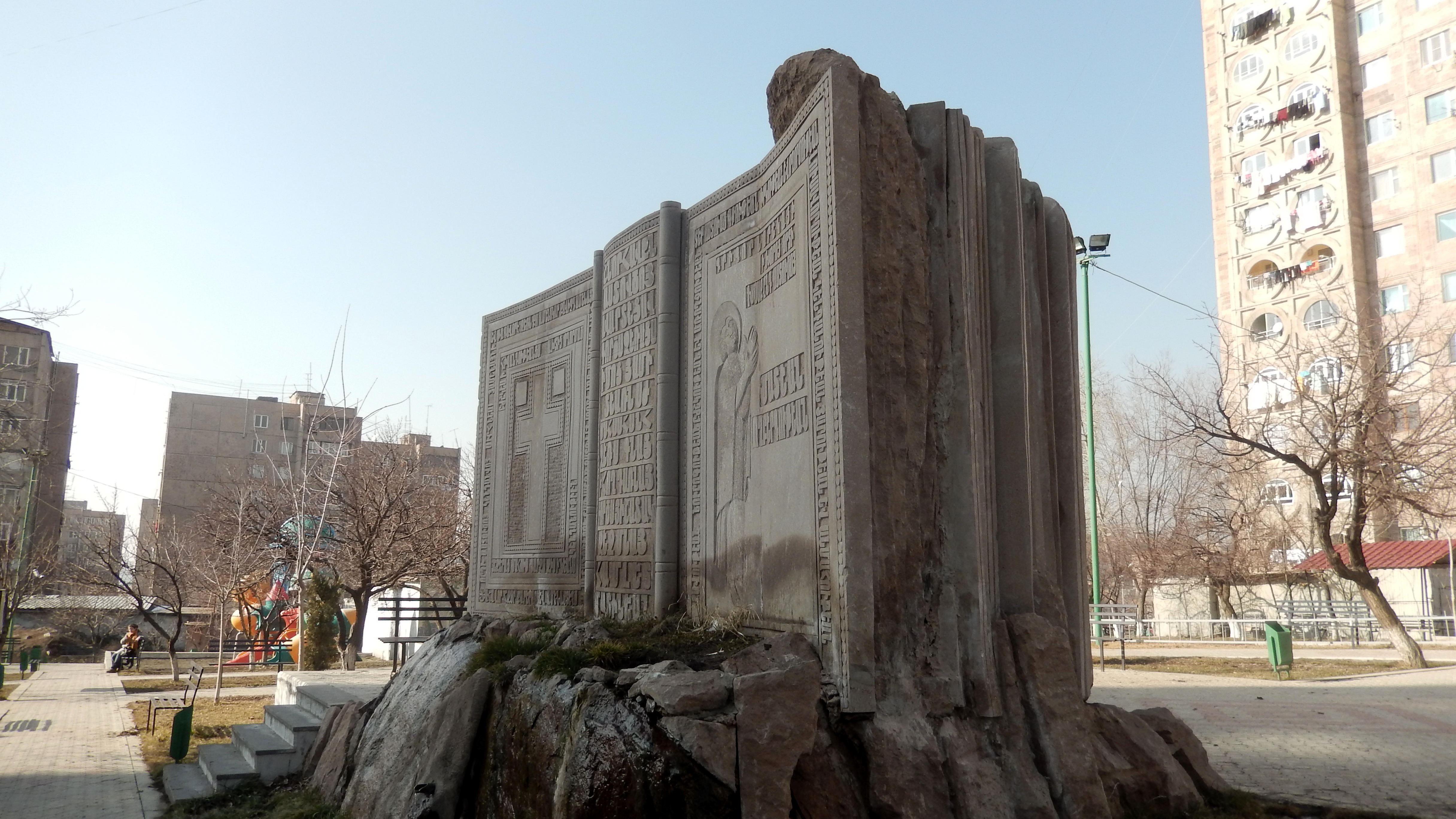 Narek Monument in Avan district, Yerevan